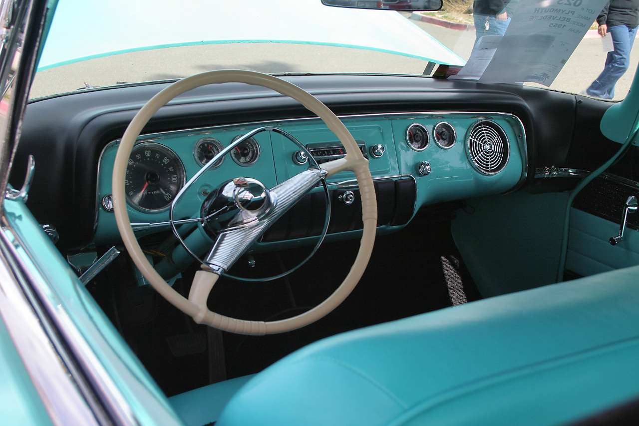 1955 Plymouth Belvedere 2d htp - aqua black - 840